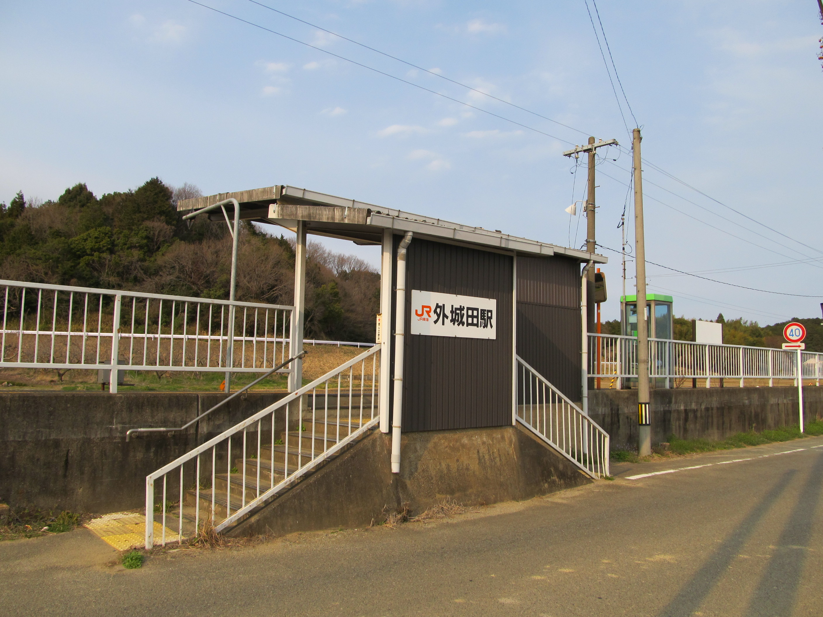 Central Japan Railway Sangū Line Tokida Station Gate